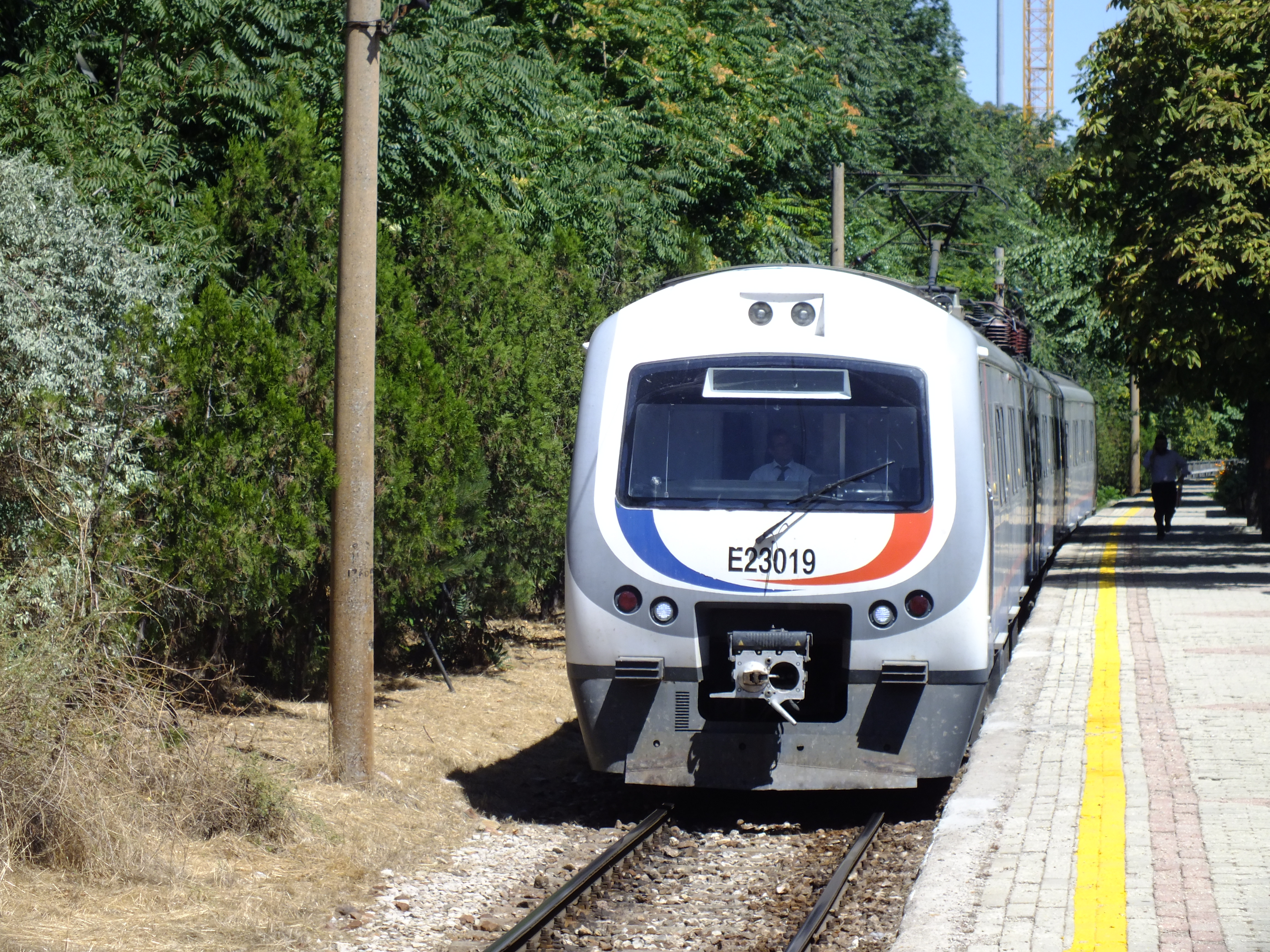 A westbound commuter train arriving at Yenişehir station in 2013.